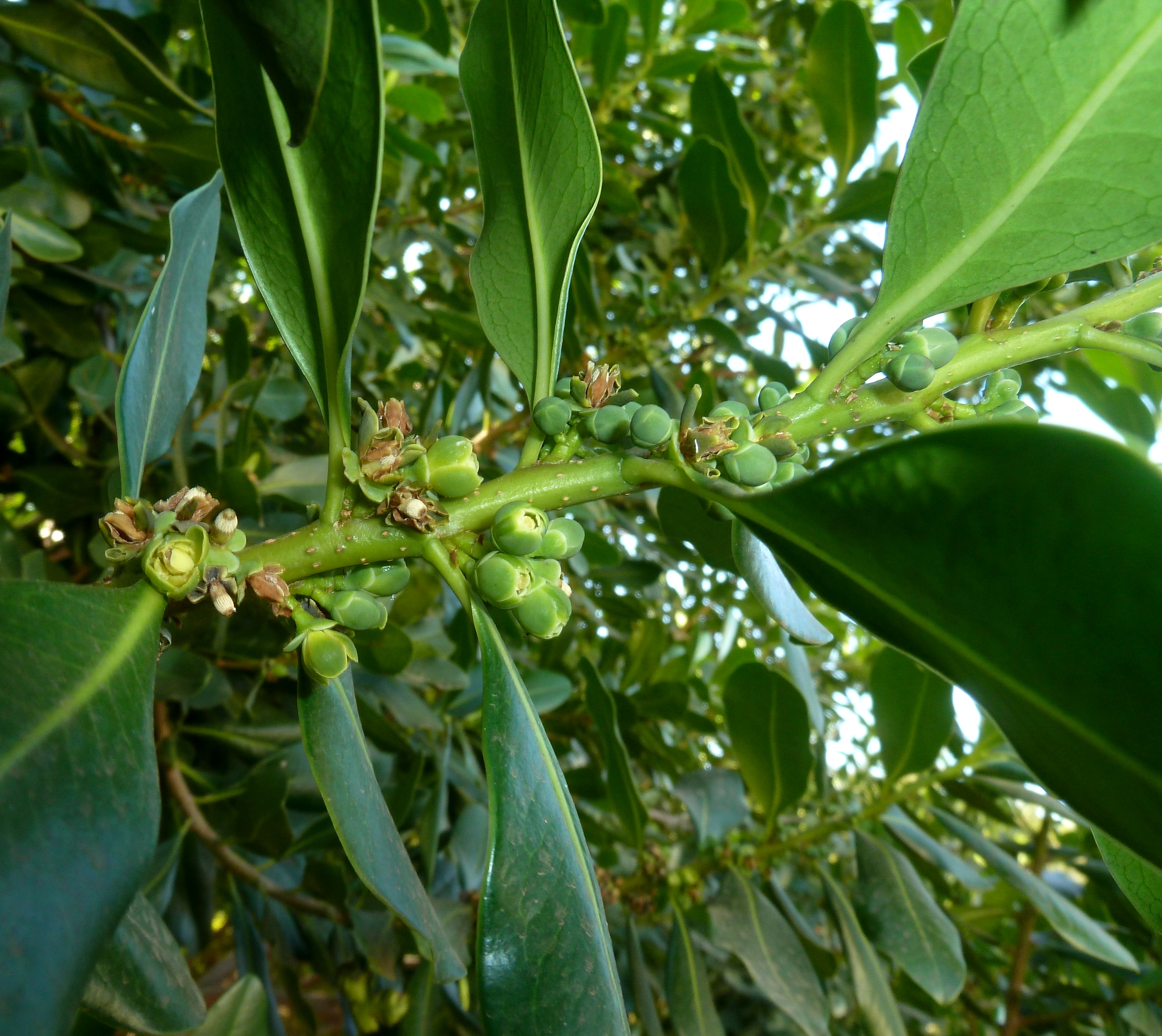 Foliage, flowers and lenticels of a Pepper-bark tree in the Manie van der Schijff Botanical Garden at the University of Pretoria